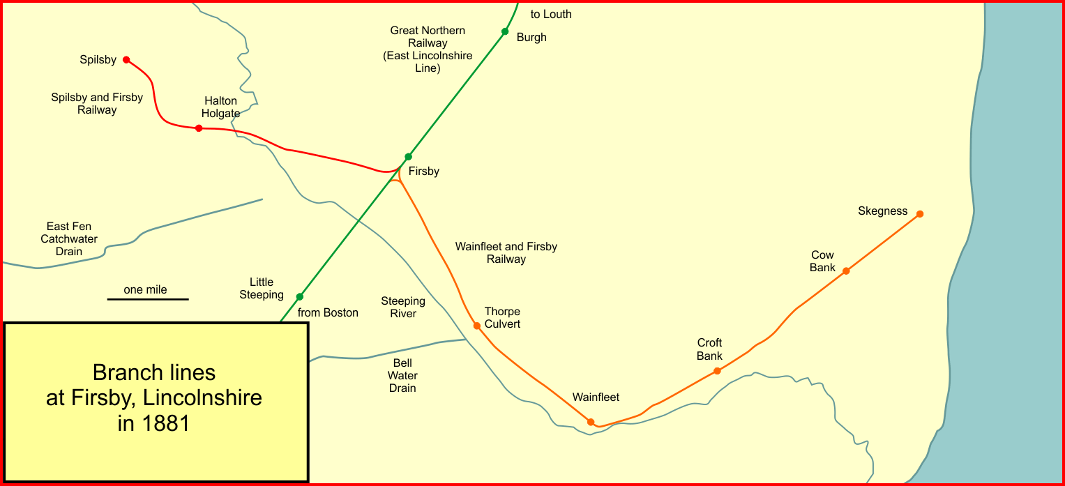 Diagram of railway lines around Firsby, Lincolnshire, England in 1881, including the Spilsby and Skegness branches